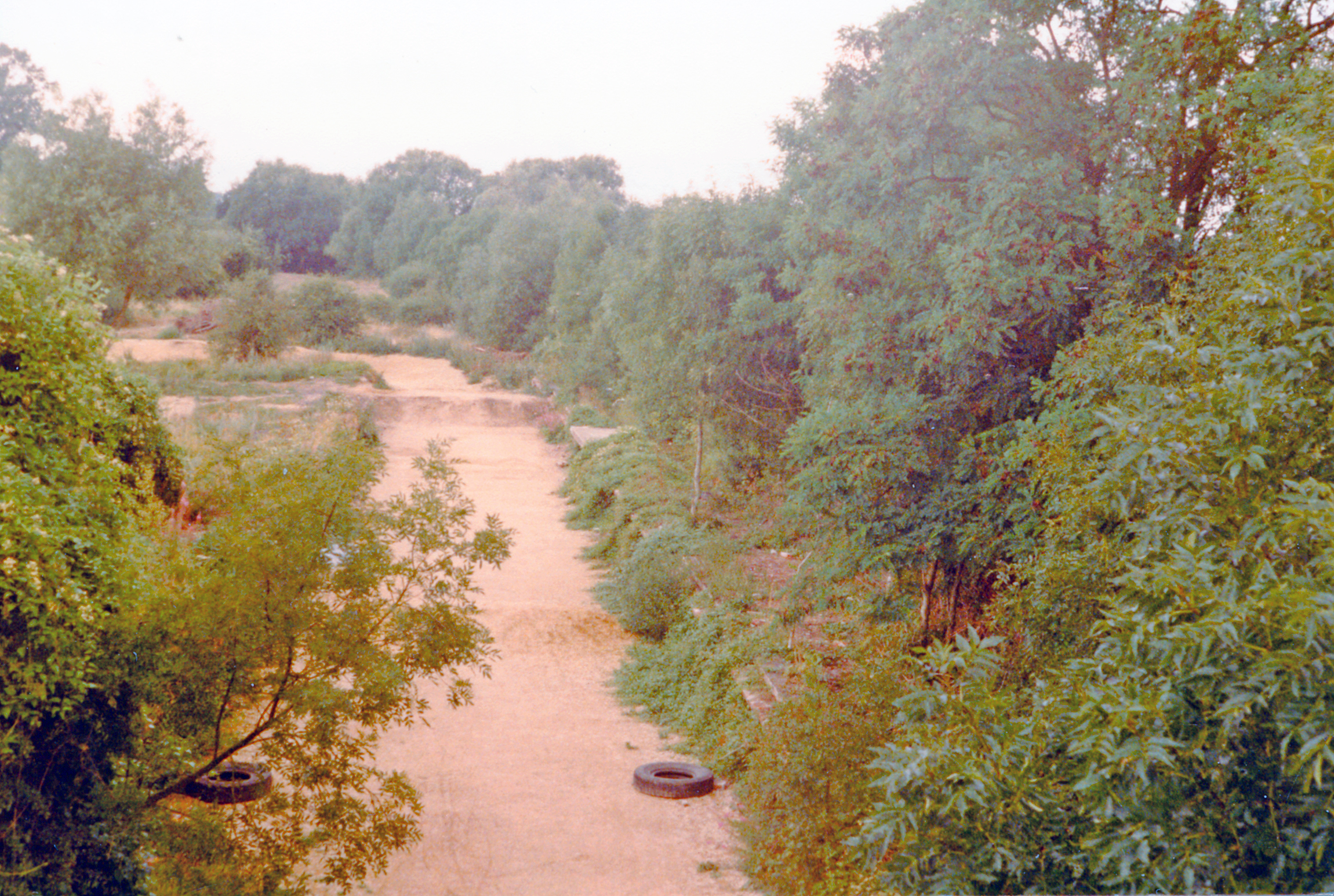 Site of former South Cerney station, 1984. View NW, towards Cirencester and Cheltenham: ex-Midland & Great Western Joint Line, Cheltenham - Swindon - Marlborough - Andover Junction. Most of the line and its stations were closed 11/9/61, but remained open to goods Swindon - Cirencester until 7/9/64.